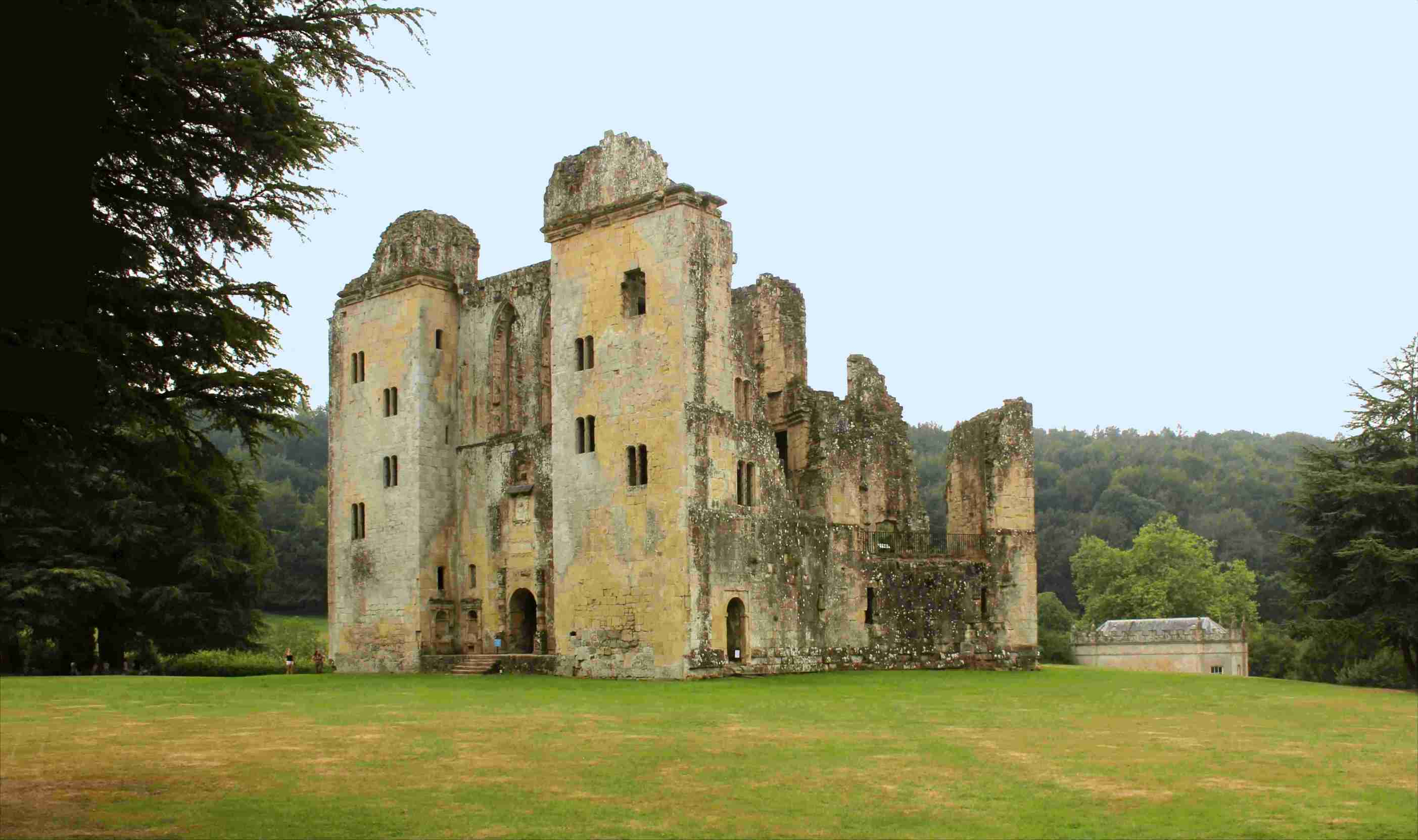 UK Wardour Castle in 2020 from the N